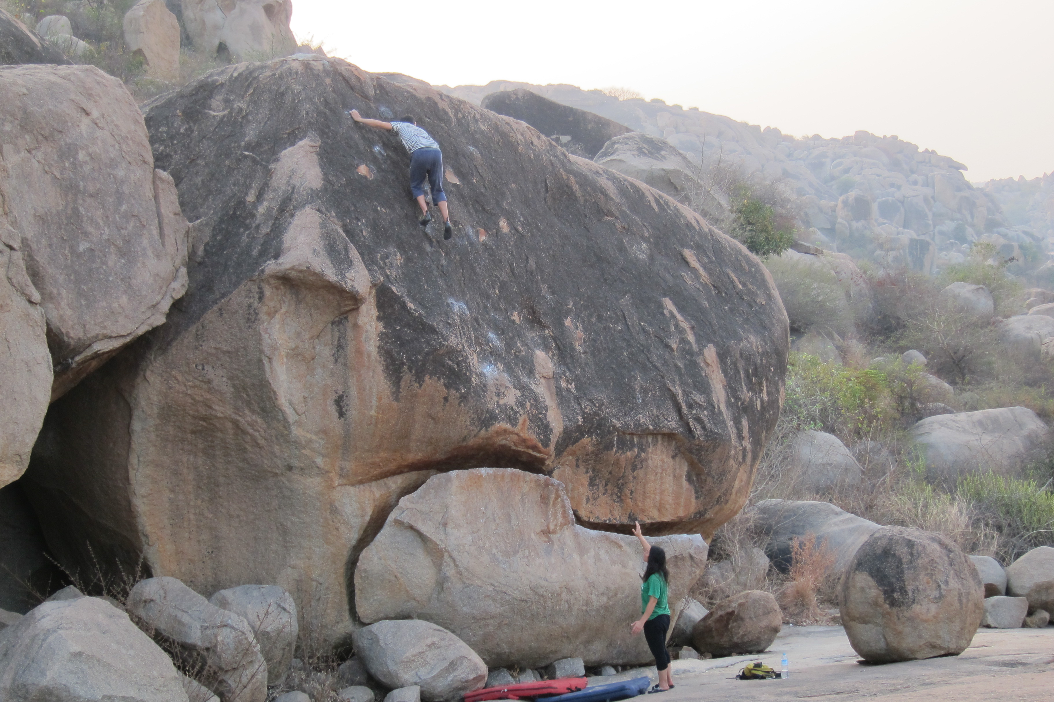 Easy highball